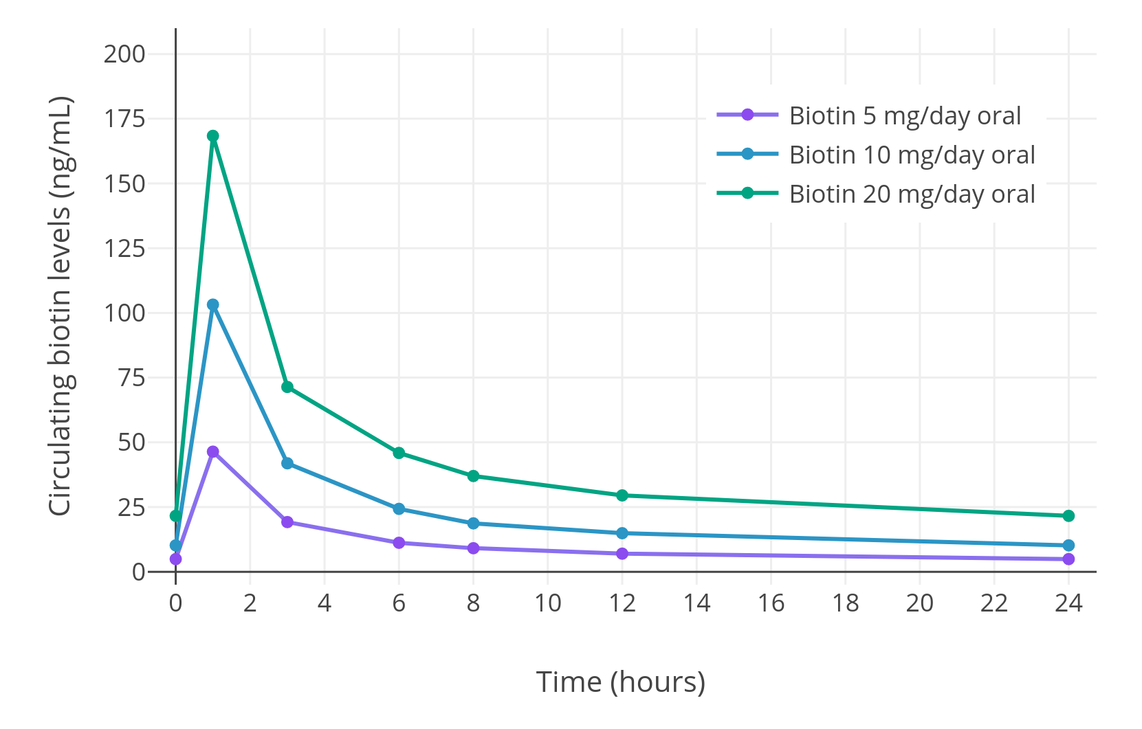 Biotin levels with different doses of oral supplements. Levels reached steady state after approximately 3 days. Source of the values: (September 2017). "Population pharmacokinetics of exogenous biotin and the relationship between biotin serum levels and in vitro immunoassay interference". Biochem. Pharmacol. 2 (4): 247-56.